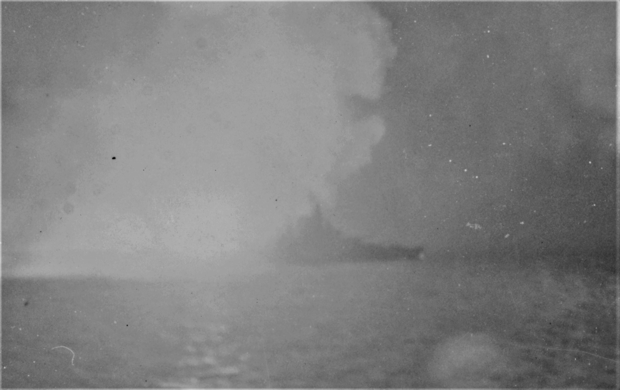 The U.S. Navy battleship USS West Virginia (BB-48) firing during the Battle of Surigao Strait, 24-25 October 1944.